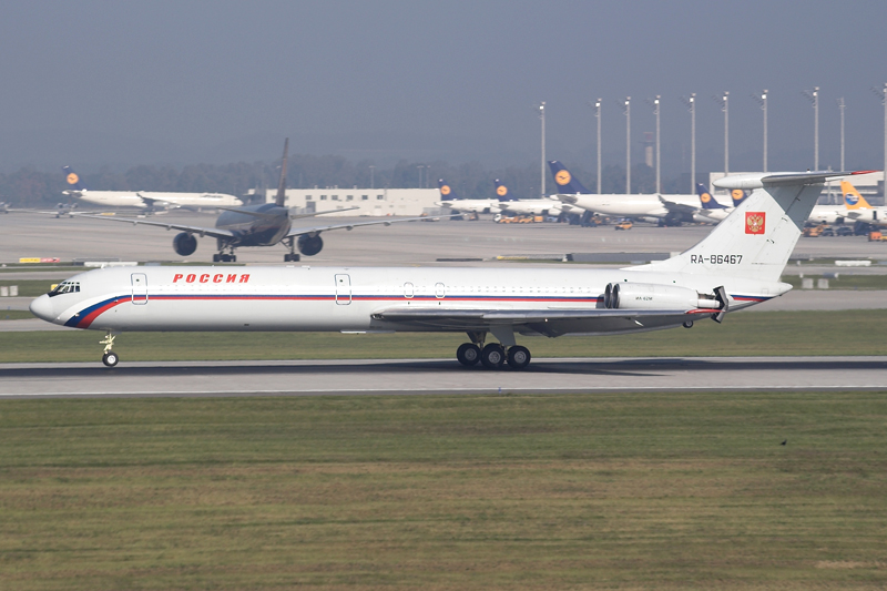 Rossija (Russian State Transport Company) Ilyushin Il-62 RA-86467